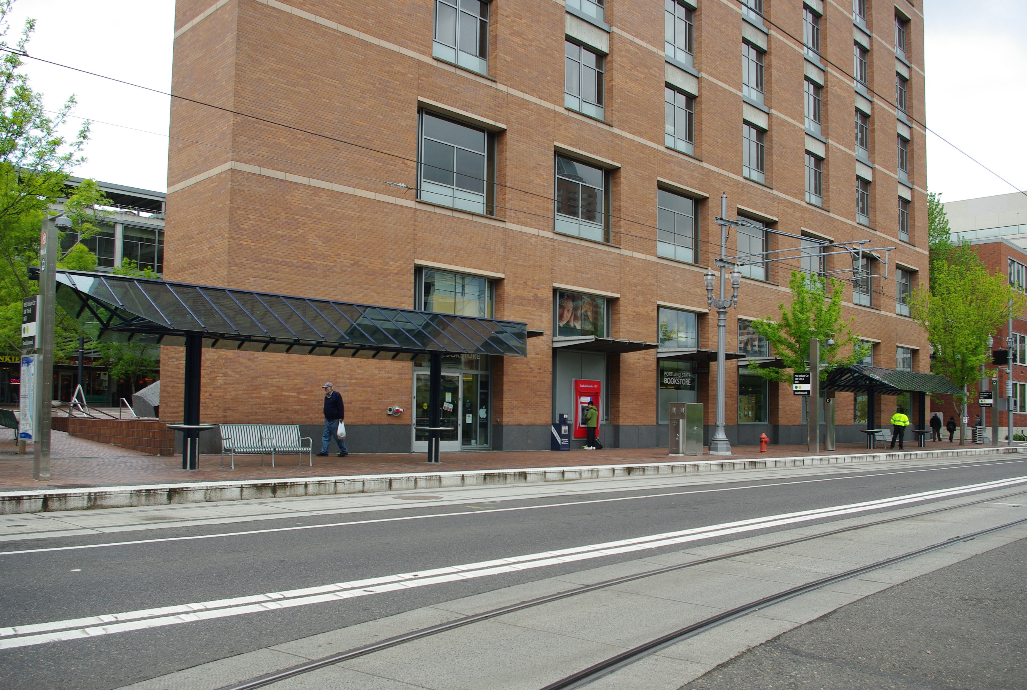 PSU Urban Center/SW 5th & Mill Street MAX station in Portland, Oregon. The track in the foreground is for the Portland Streetcar (NS Line), not MAX.